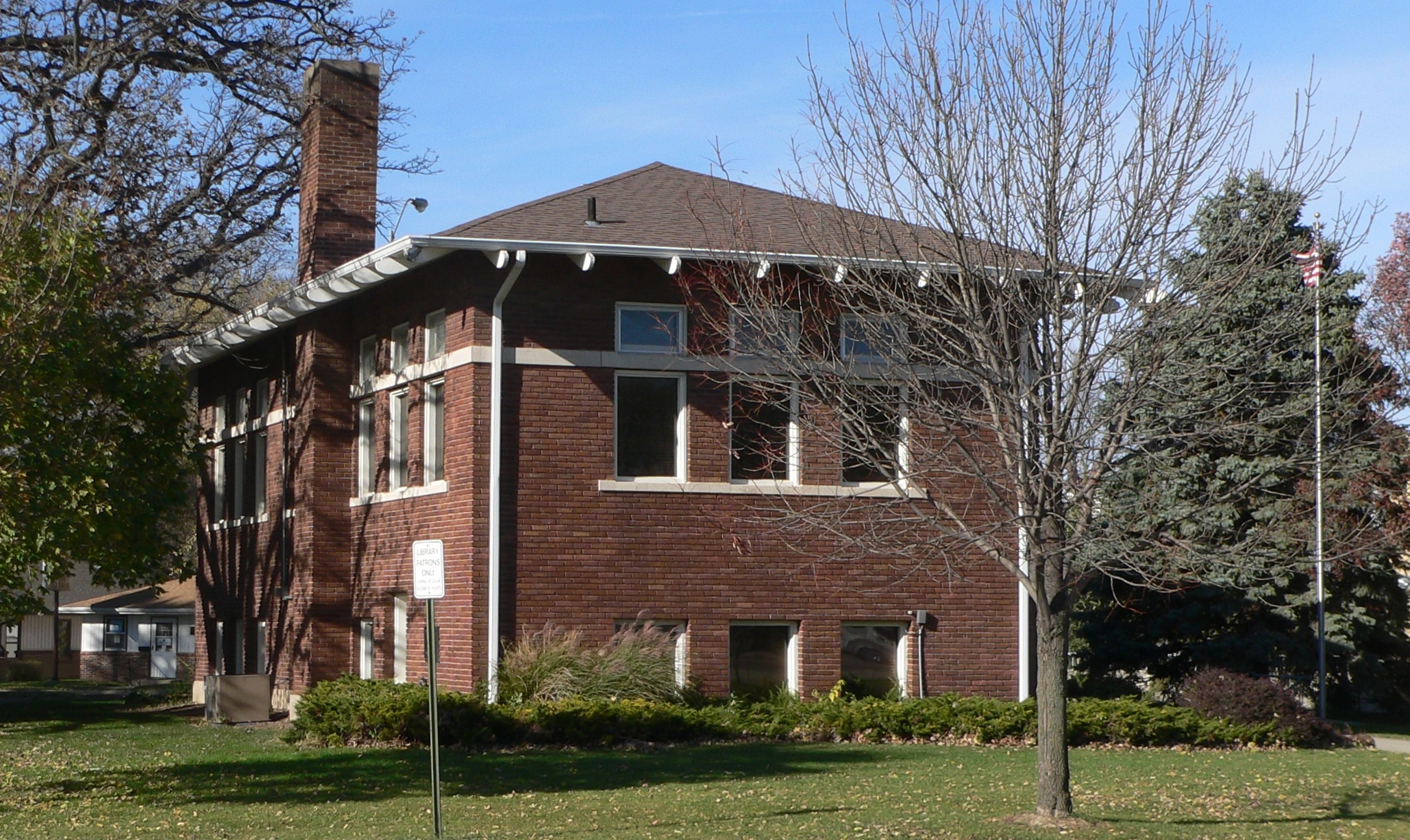 Tekamah Carnegie Library in Tekamah, Nebraska; seen from the south. (The building faces northeast.) The Prairie School library was constructed in 1916, and is listed in the National Register of Historic Places. It continues to serve as Tekamah's library.